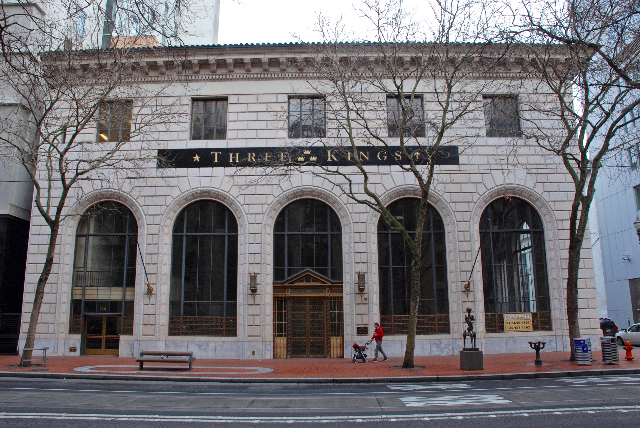 The main façade of the historic Bank of California Building (built 1924–25), facing SW 6th Avenue in downtown Portland, Oregon. The building has been lettered as the Three Kings building since 2008. The entrance at the left end was added in 1977.